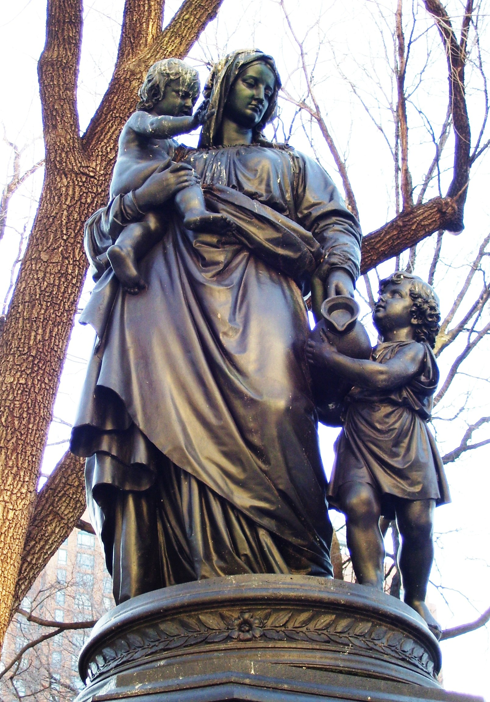 The Drinking Fountain in Union Square Park, Manhattan, New York City, was designed by architect J. Leonard Corning and sculpted in bronze by Adolf von Donndorf. The base is polished Swedish red granite. It was cast in 1881 by G. Howaldt, Braunschweig and dedicated on October 25th of that year. The fountain was donated by Daniel Willis James and Theodore Roosevelt, Sr. (Source: "Union Square Drinking Fountain" on the NYC Parks Department website)